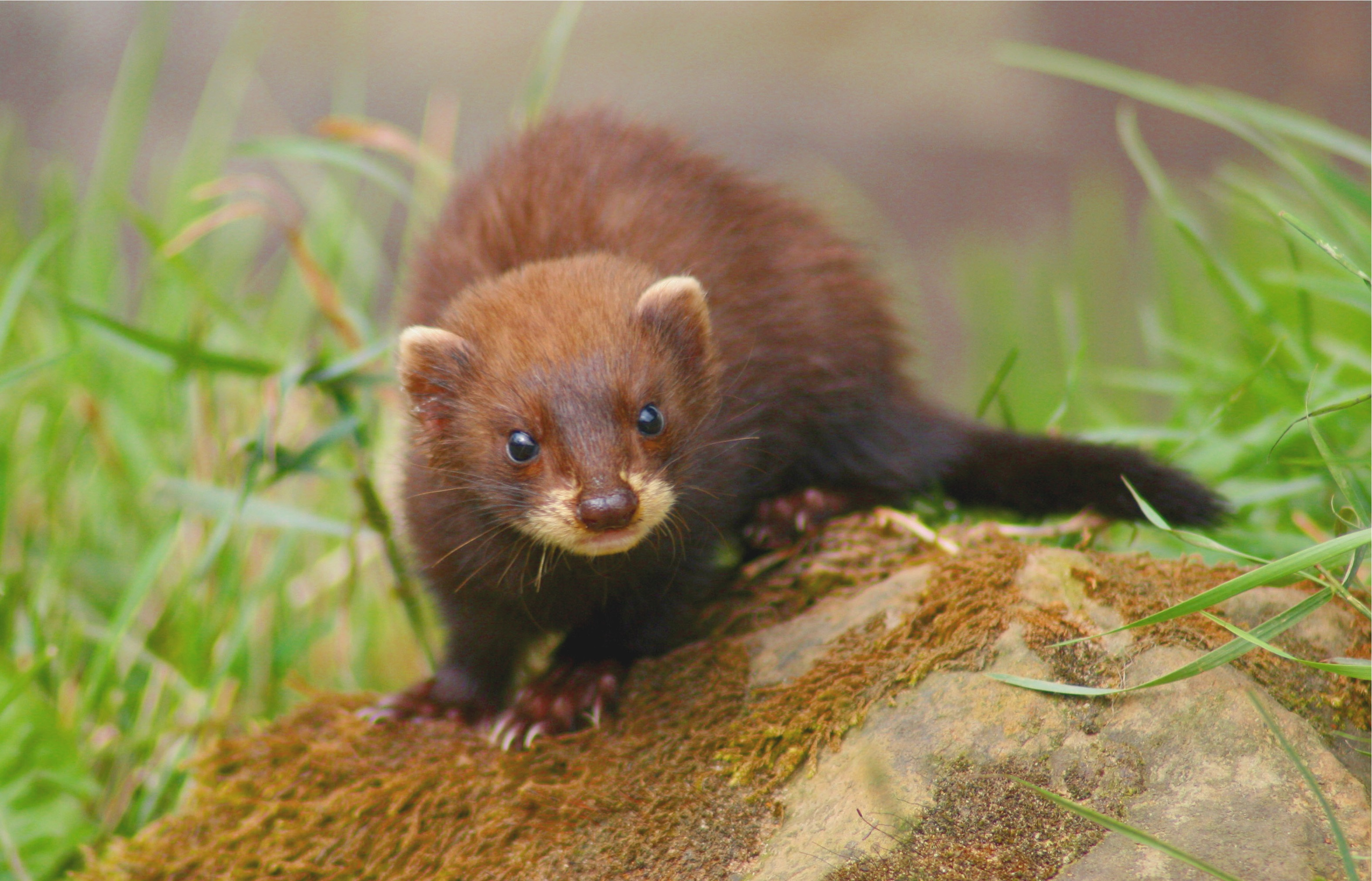 Baby European Polecat - British Wildlife Centre, Surrey, England ~ Sunday August 17th 2008.